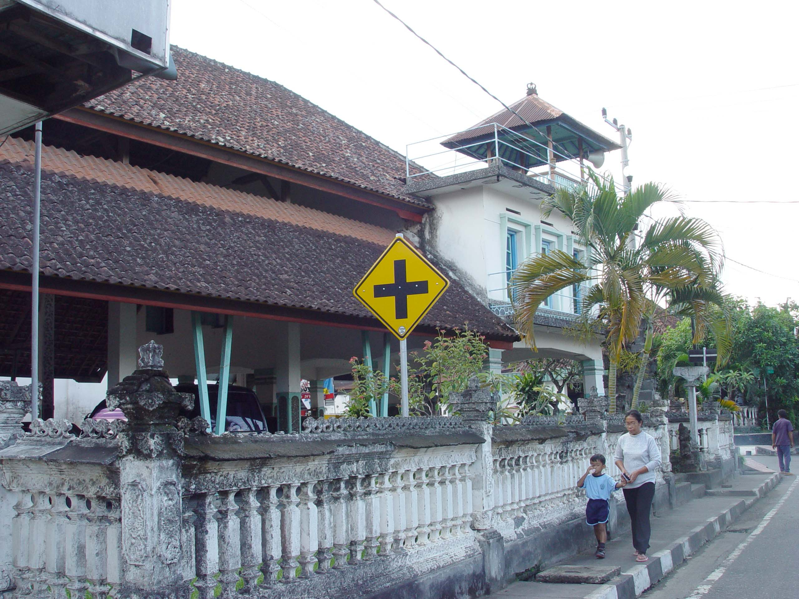 Semarapura, Klungkung, Klungkung, Bali, Indonesia